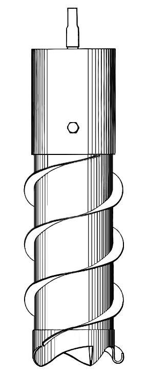 Retouched image of 1932 patent drawing of ice auger designed by F.W Brooks, Sr.